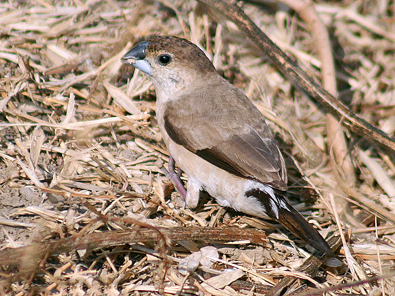 Indian Silverbill (Lonchura malabarica) at Hodal in Faridabad District of Haryana, India.